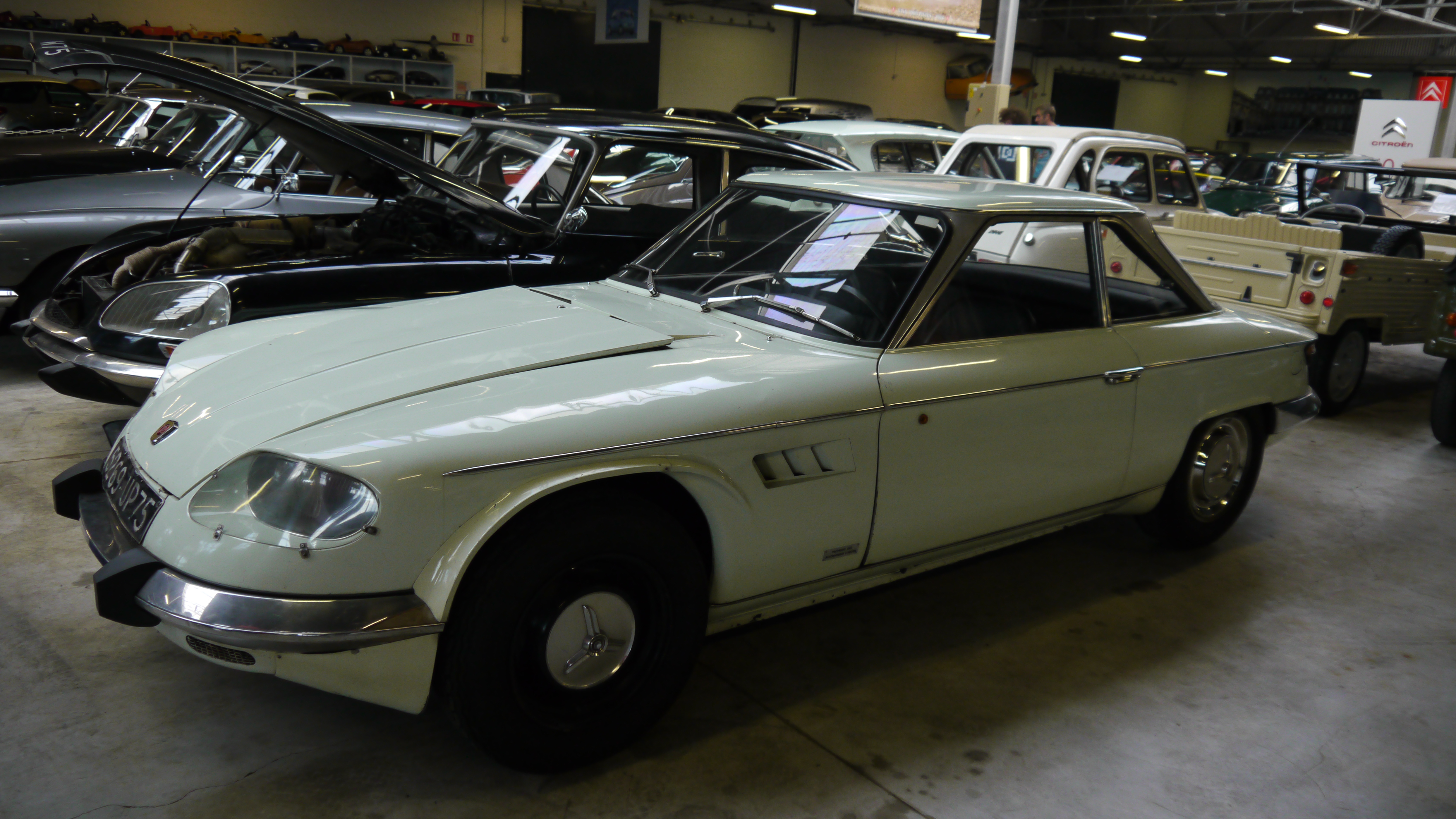 1967 Panhard 24 CT/DS prototype: Panhard 24 CT body with a longer nose and chassis, suspension and engine adapted from the Citroën DS. This car belongs to the Conservatoire Citroën (fr).